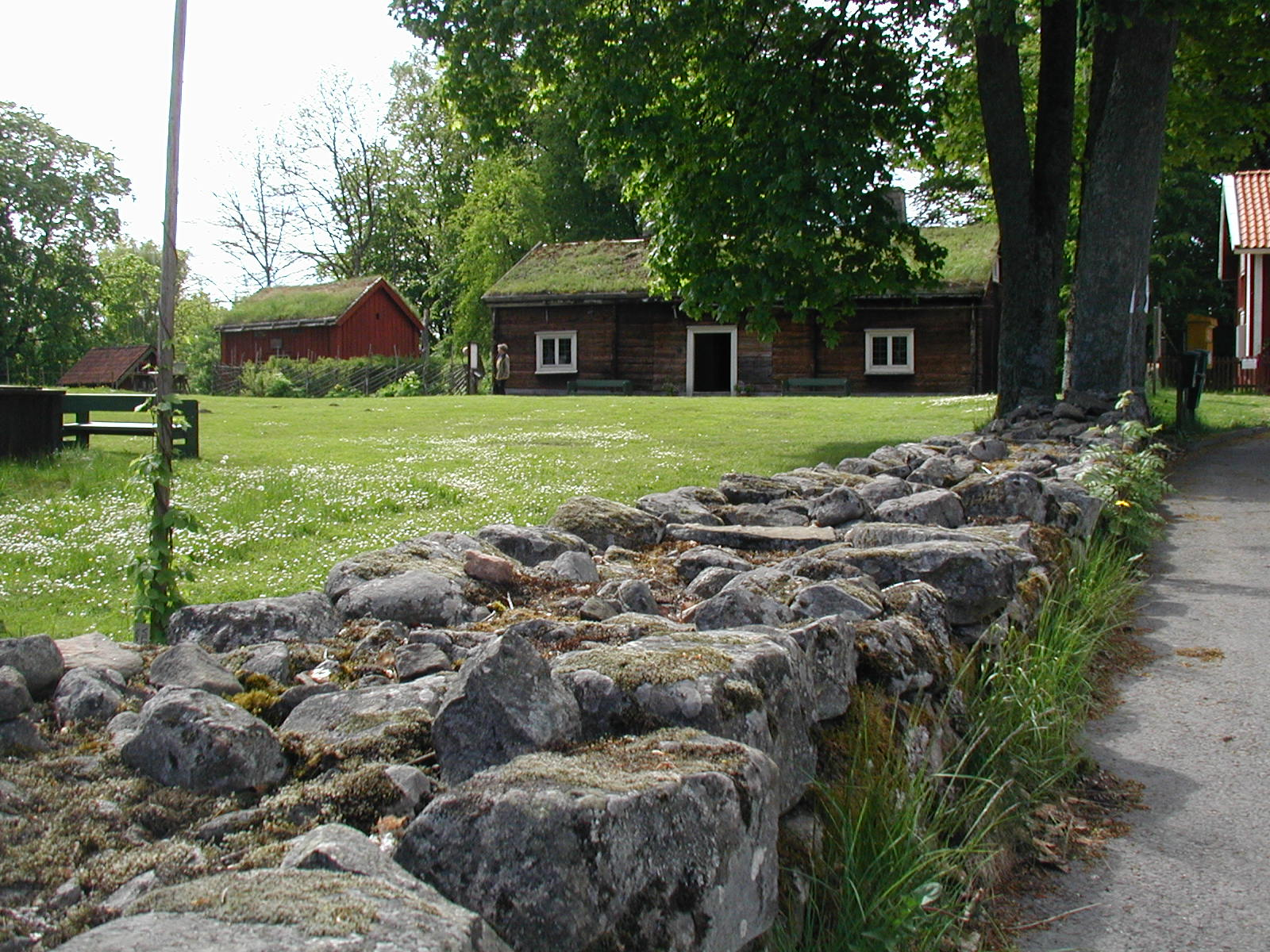 Råshult, the birthplace of Carl von Linné